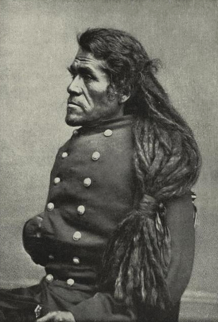 Mohave chief Irataba.